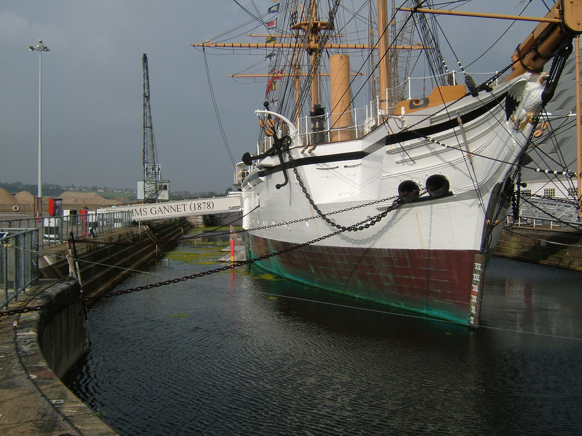 HMS Gannet (1878) in Dry Dock #4, Chatham Dockyard. Attrib to: Clem Rutter, Rochester, Kent. Category:Medway Category:Royal Navy